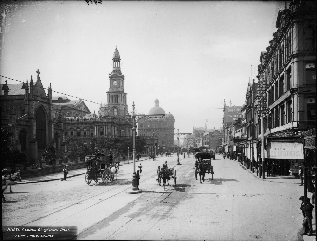 Format: Glass plate negative. Repository: Tyrrell Photographic Collection, Powerhouse Museum Part Of: Powerhouse Museum Collection General information about the Powerhouse Museum Collection is available at Persistent URL: Acquisition credit line: Gift of Australian Consolidated Press under the Taxation Incentives for the Arts Scheme, 1985